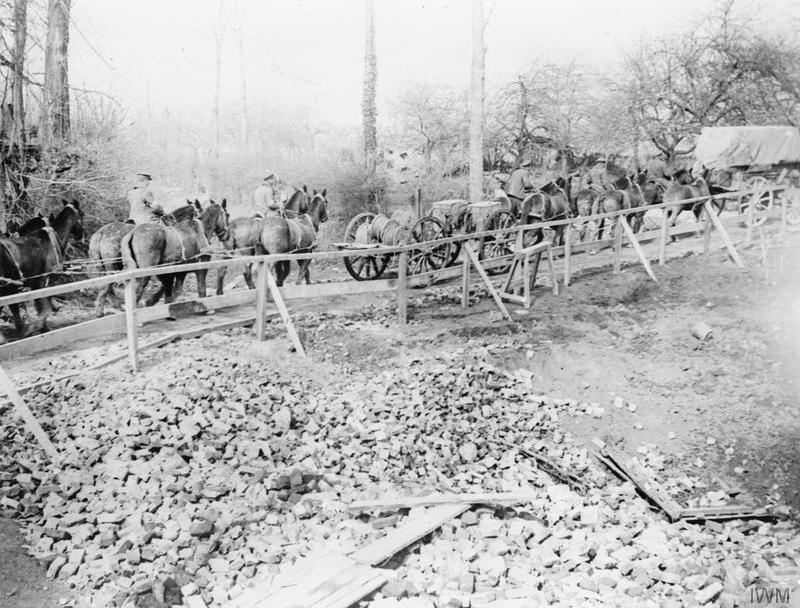 The German Withdrawal To the Hindenburg Line, March-april 1917 Royal Engineers signals train going over a wooded road built round a mine crater. Ablainzeville, March 1917.